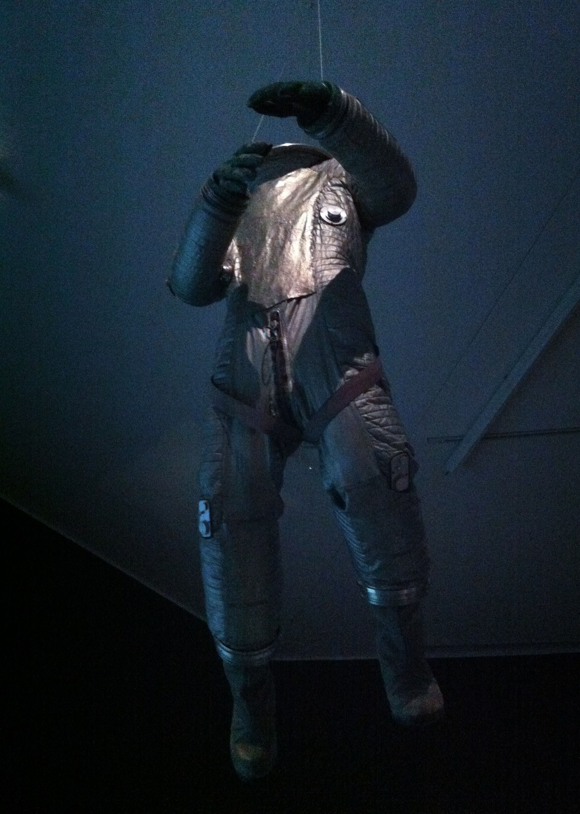 Stanley Kubrick exhibit at EYE Filminstitut Netherlands, Amsterdam